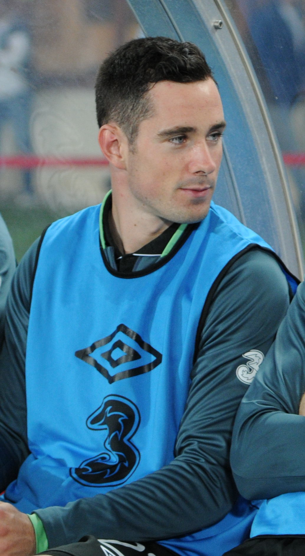 2014 FIFA World Cup qualification (UEFA), Group C: Republic of Ireland national football team at 10. September 2013 before the match against the Austria national football team in the Ernst-Happel-Stadion in Vienna. Here: Greg Cunningham. The making of this work was supported by Wikimedia Austria. For other files made with the support of Wikimedia Austria, please see the category Supported by Wikimedia Österreich.